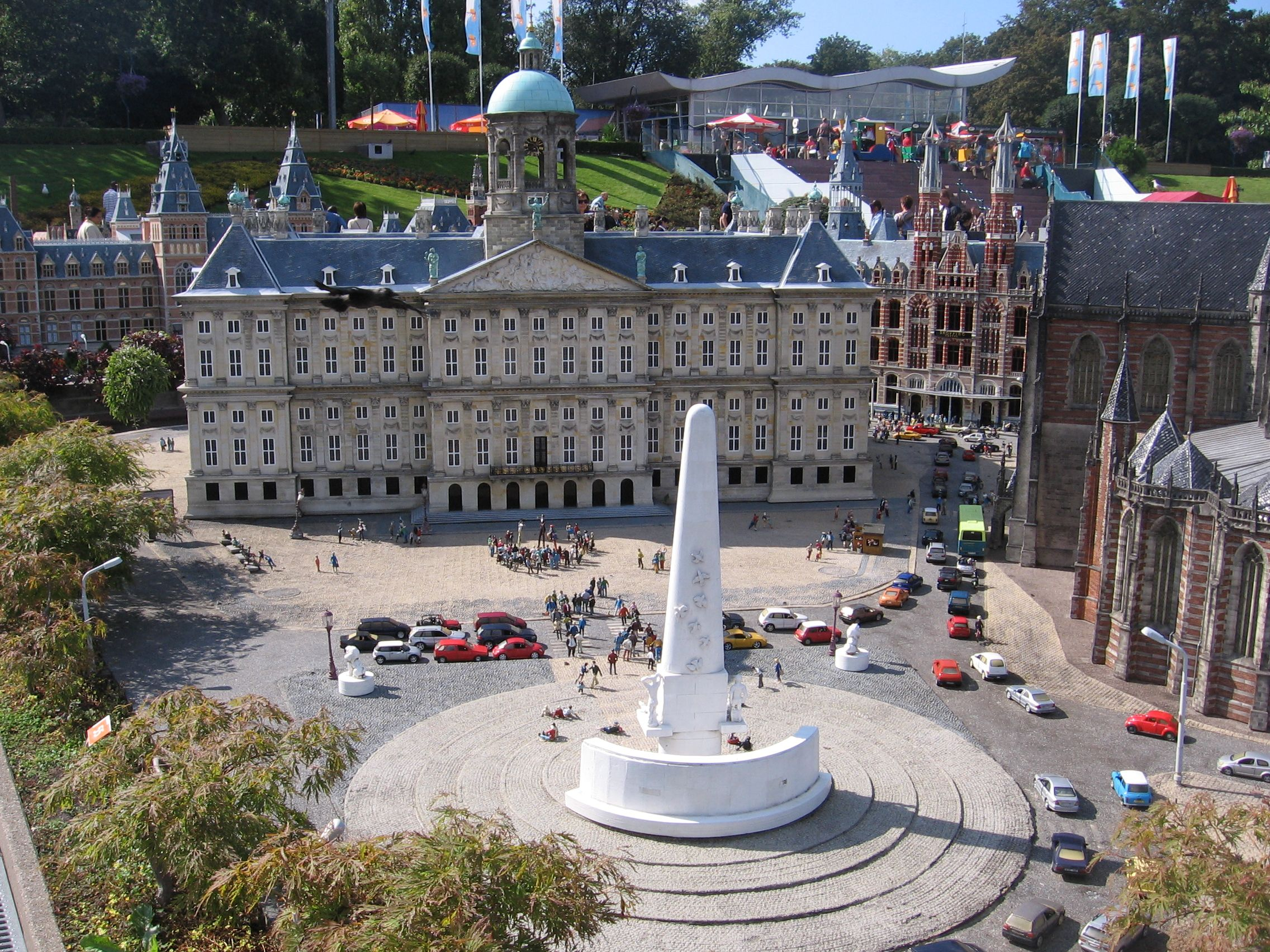 Madurodam miniature city in the Netherlands - model of Amsterdam's Dam square.